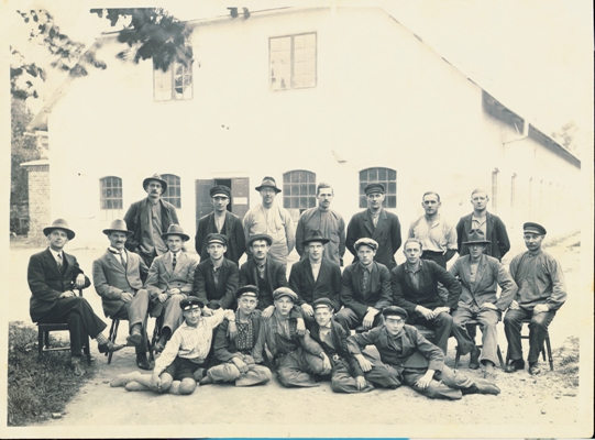 Original Hästens staff